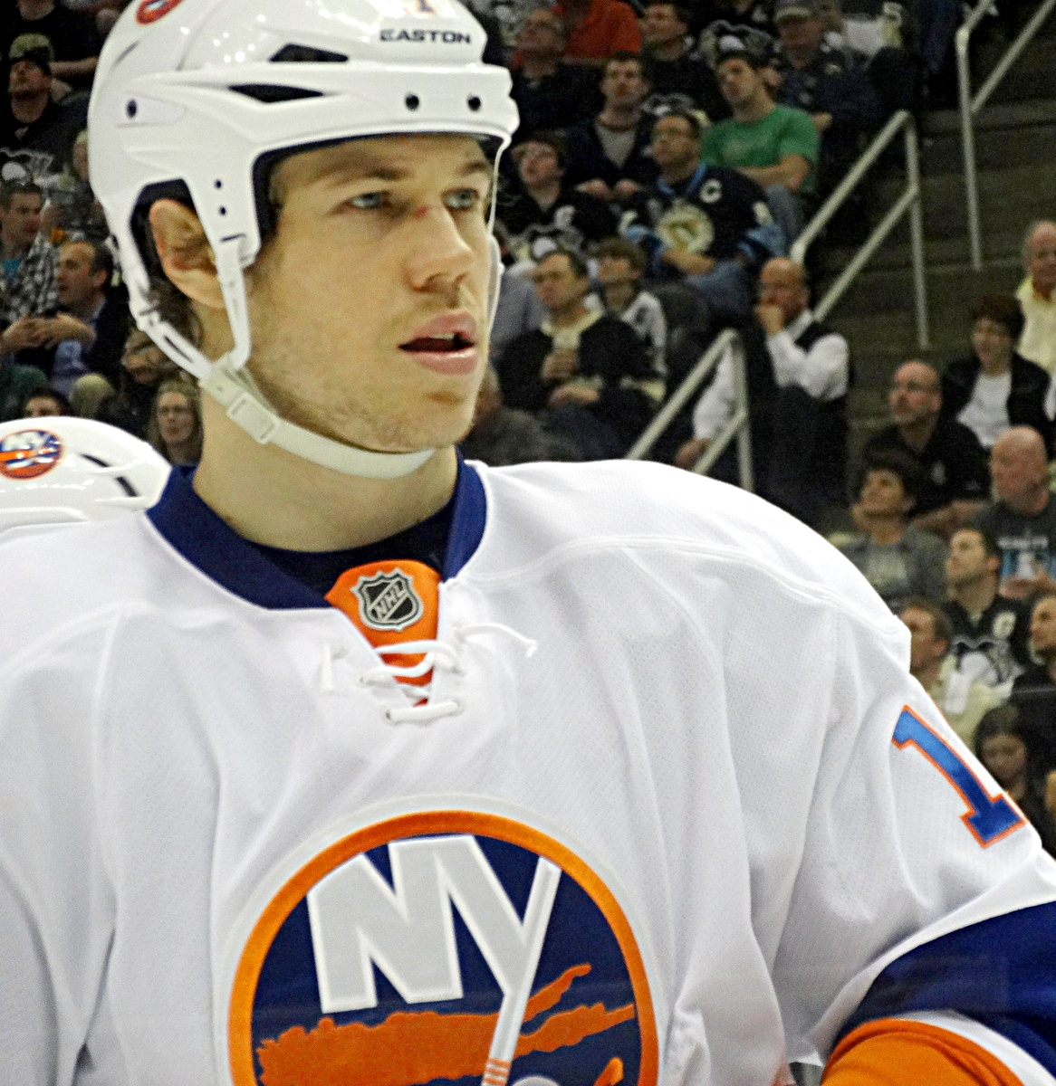 New York Islanders forward Matt Martin during round one, game five of the 2013 Stanley Cup playoffs against the Pittsburgh Penguins, May 9, 2013 at Consol Energy Center.